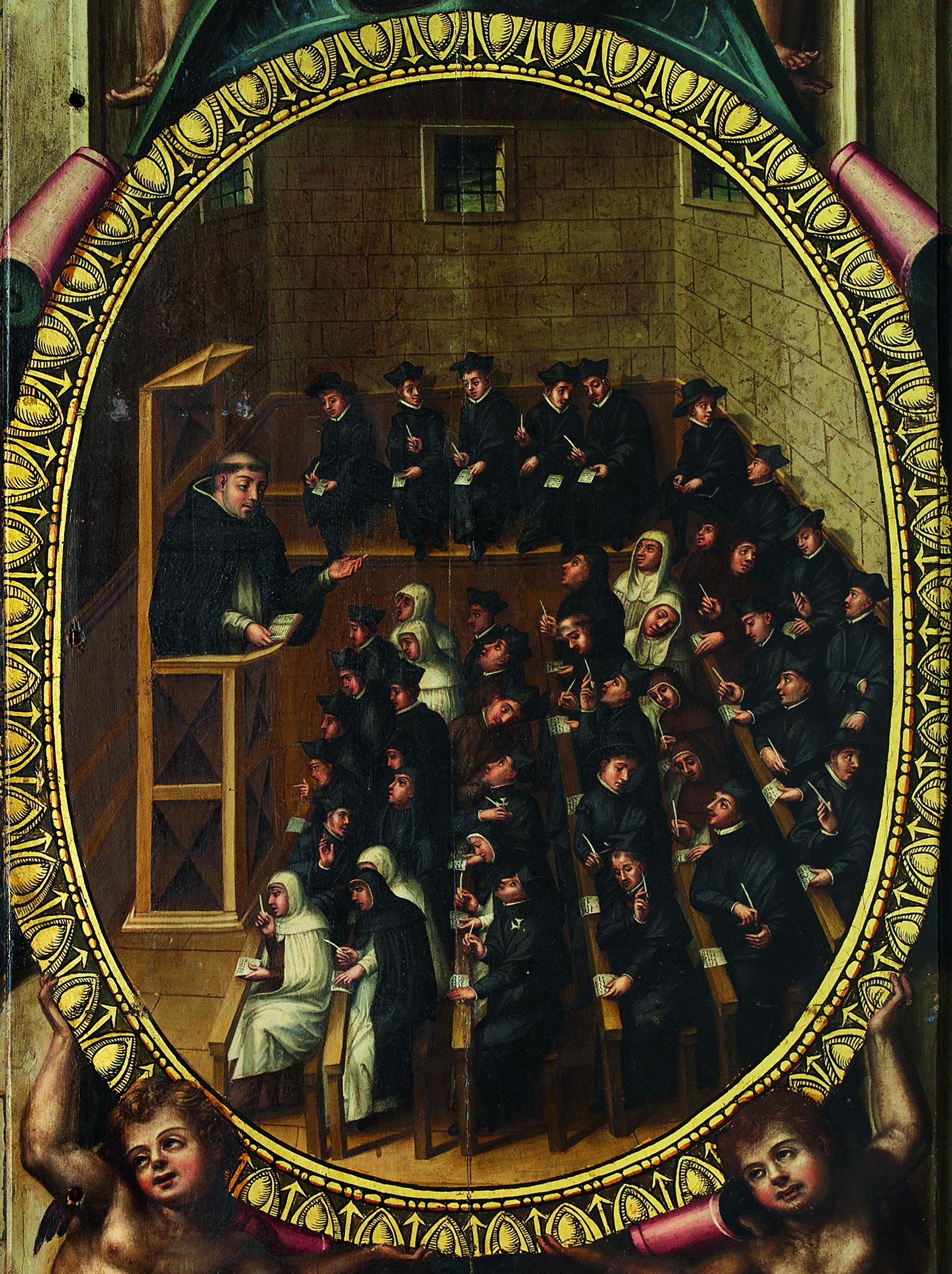 Class at the University of Salamanca